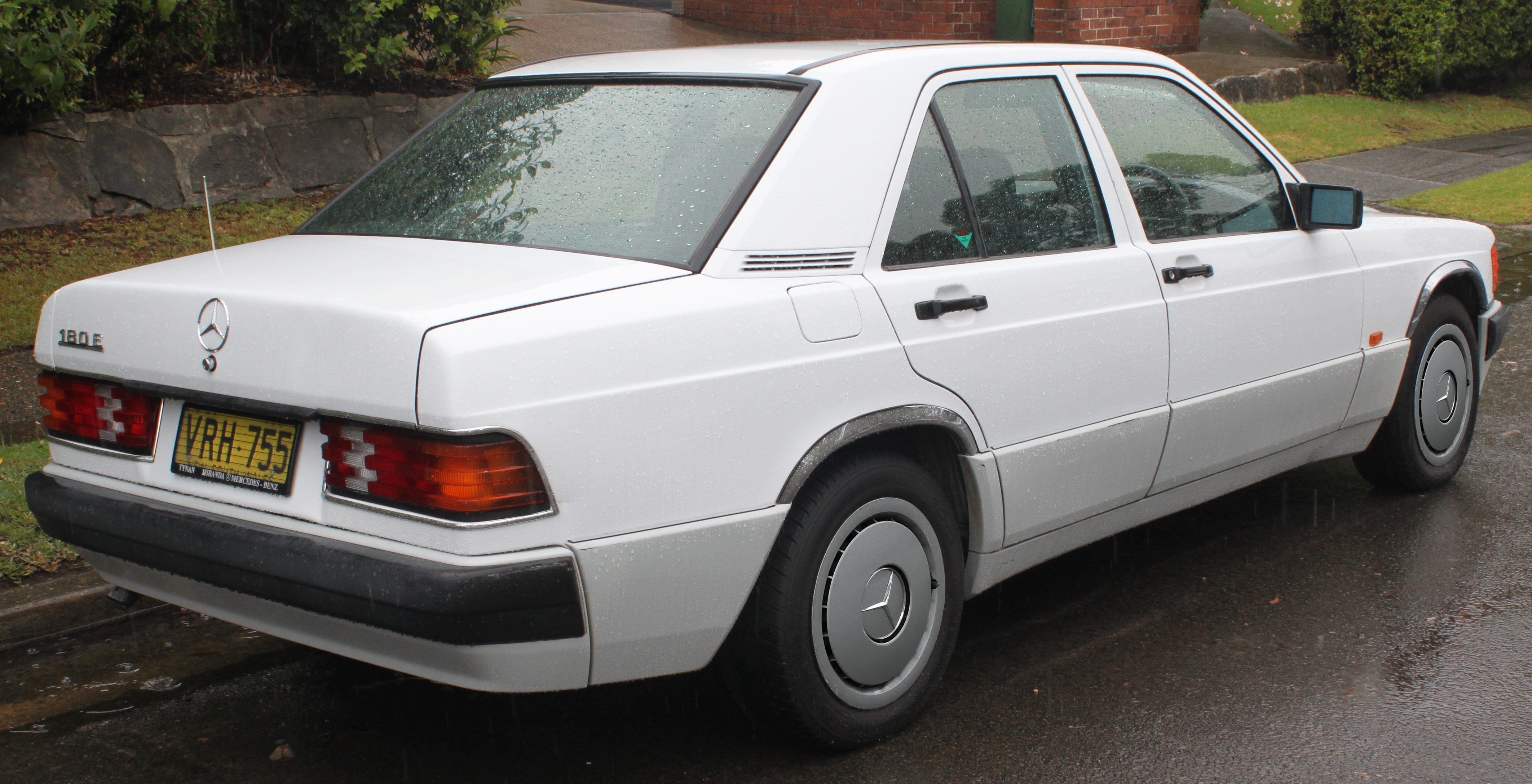 1991 Mercedes-Benz 180 E (W201) Limited Edition sedan.